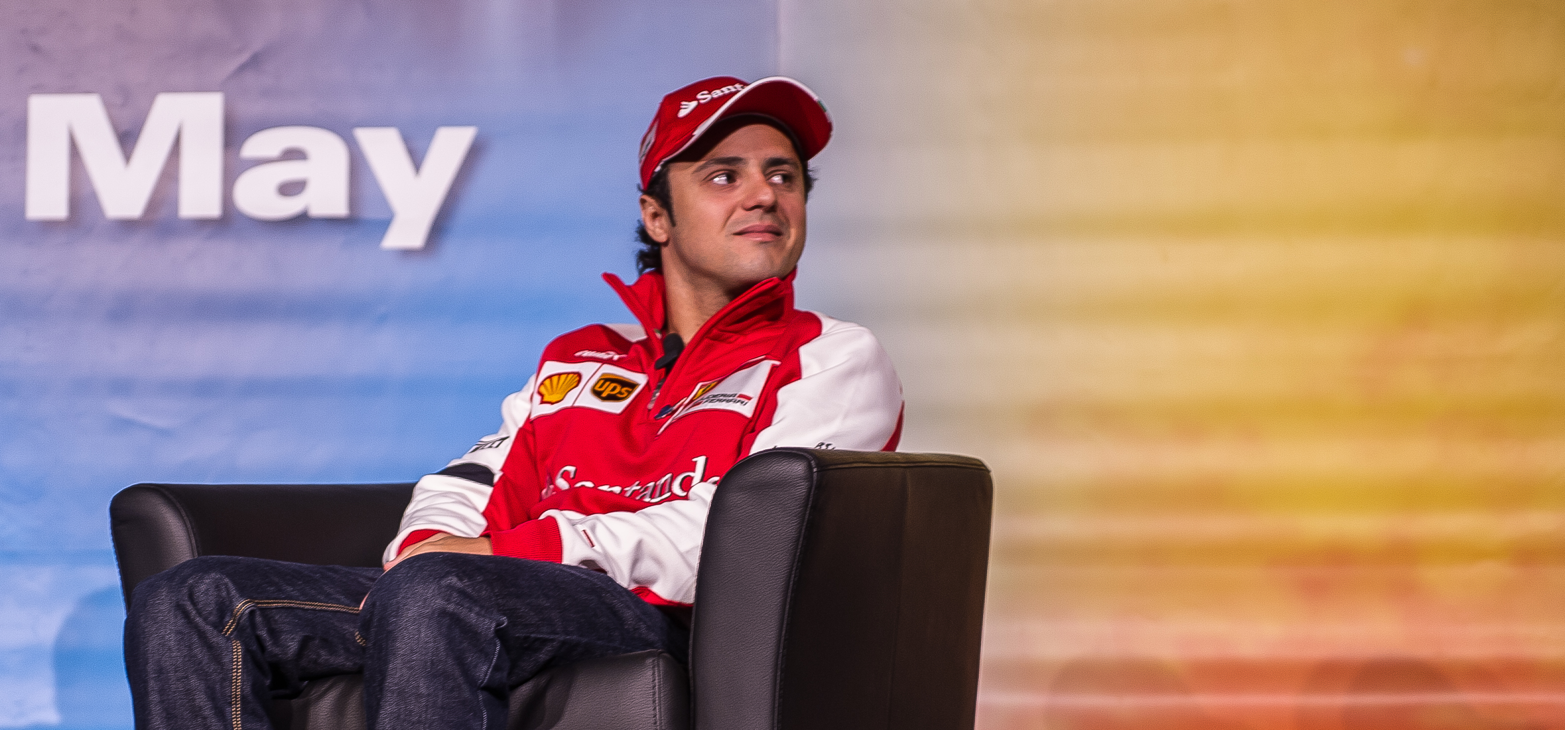 Felipe Massa, Formula-1 Ferrari driver World Telecommunication and Information Society Day, celebrated each year on 17 May, marks the establishment of the International Telecommunication Union in 1865. The theme for 2013 is ‘ICTs and Improving road safety’ According to the Report of the United Nations Road Safety Collaboration (UNRSC), 1.3 million people die each year in traffic related accidents and another 20-50 million people are injured mainly in developing countries around the world. As a result, global economic loss is estimated at USD 518 billion. Technology-related driver distraction and road-user behaviour, which includes “text messaging” and interfacing with in-vehicle navigation or communication systems while driving, are among the leading contributors to road traffic fatalities and injuries. ITU looks towards its Members to harness the catalytic role of ICTs to enhance road safety and traffic management systems, eliminate unsafe technology-related distractions while driving, promote the development and use of safe user interfaces in vehicles and develop Intelligent Transport Systems to improve the safety, management and efficiency of terrestrial transport, while reducing its environmental impact. 17 May 2013 ITU/ J.M. Planche